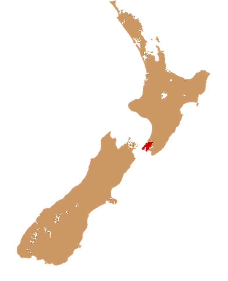 Location of Wellington within New Zealand